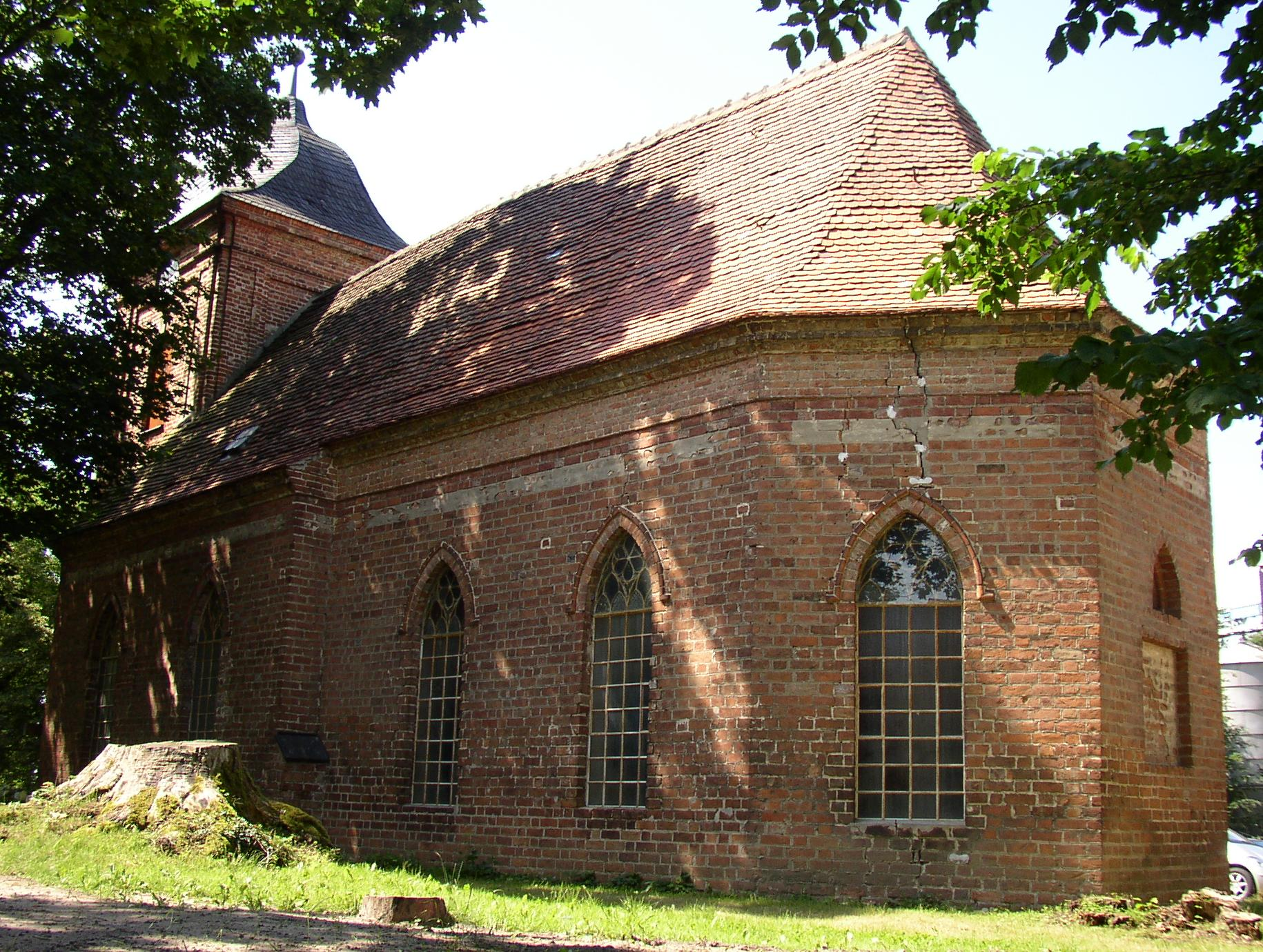 Church in Paulinenaue-Selbelang in Brandenburg, Germany